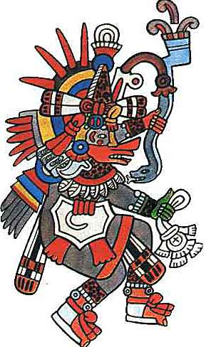 Ehecatl — an Aztec god.